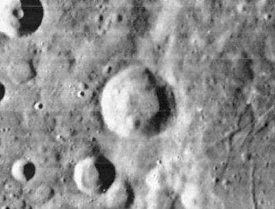 Lockyer lunar crater - image LOIV 076 H2